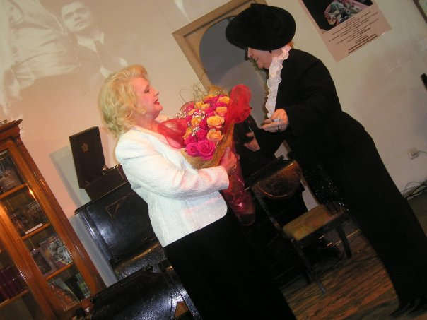 Russian actress Tatyana Doronina